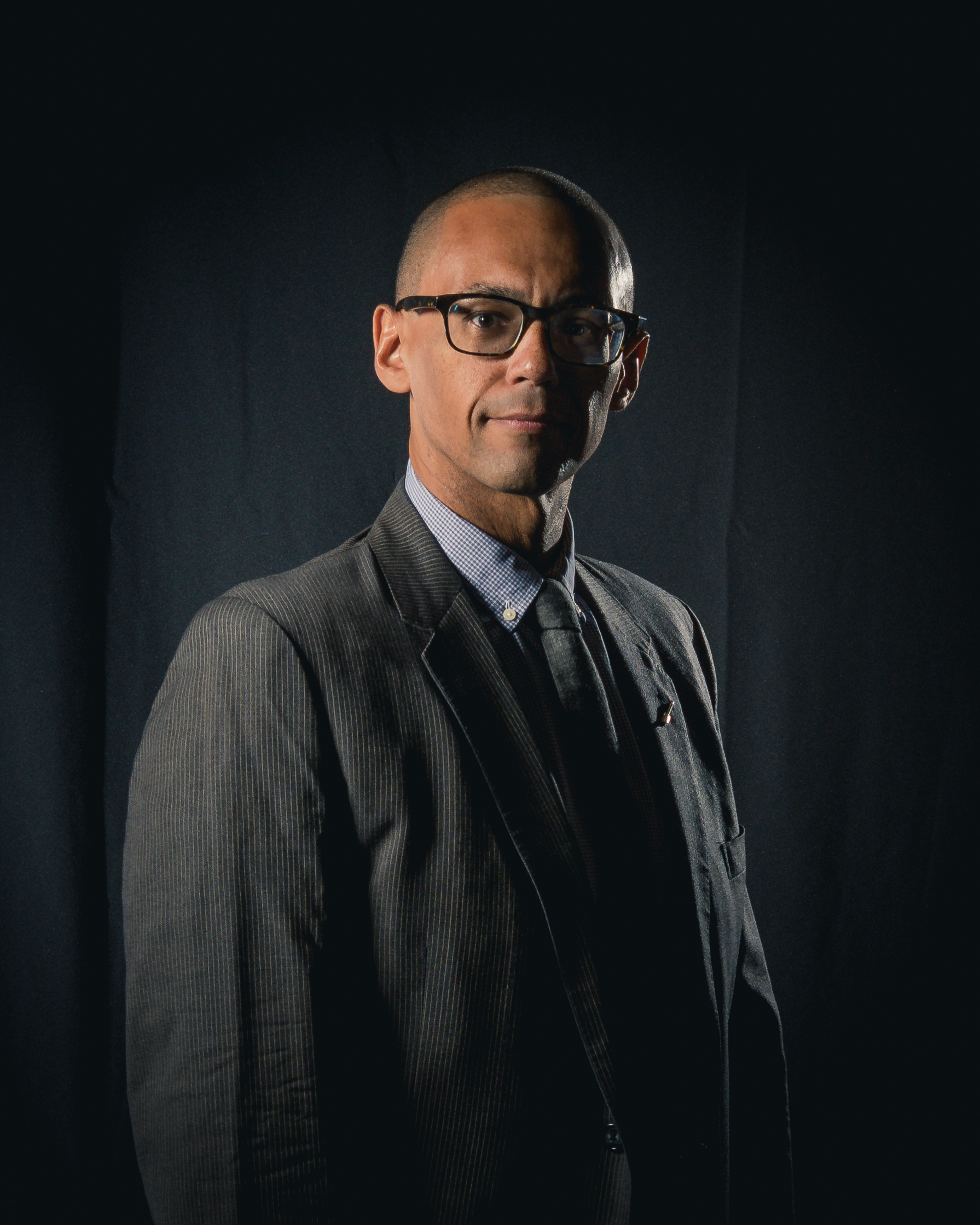 Portrait photoshoot at Worldcon 75, Helsinki, before the Hugo Awards: Victor LaValle